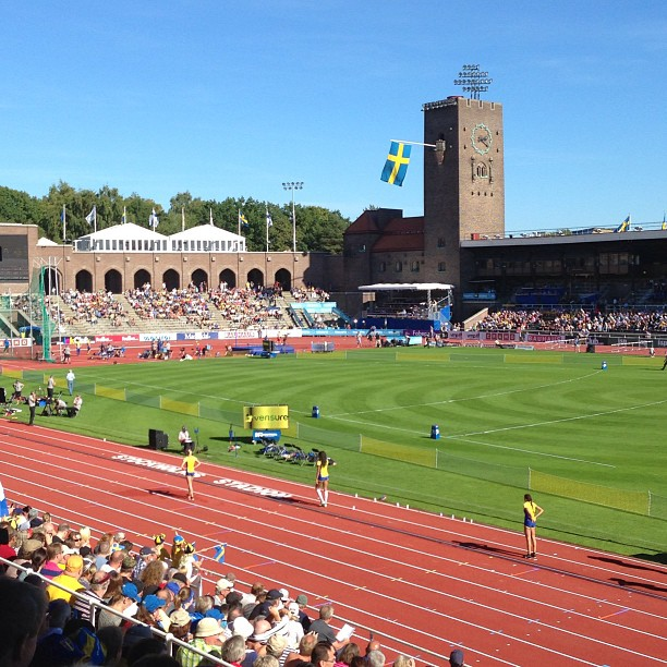 2013 Finland-Sweden athletics international in Stockholm Olympic Stadium.